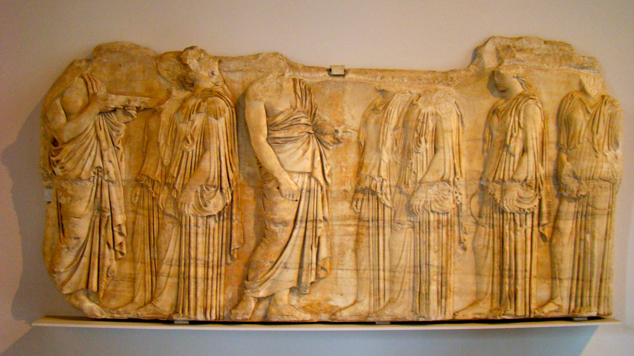 The Louvre museum: The "Plaque of the Ergastines", between 445 and 438 BC